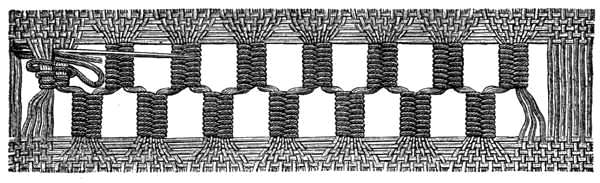 Illustration for section 3 in Encyclopedia of Needlework. Fig. 74, Open-work with darning stitch.